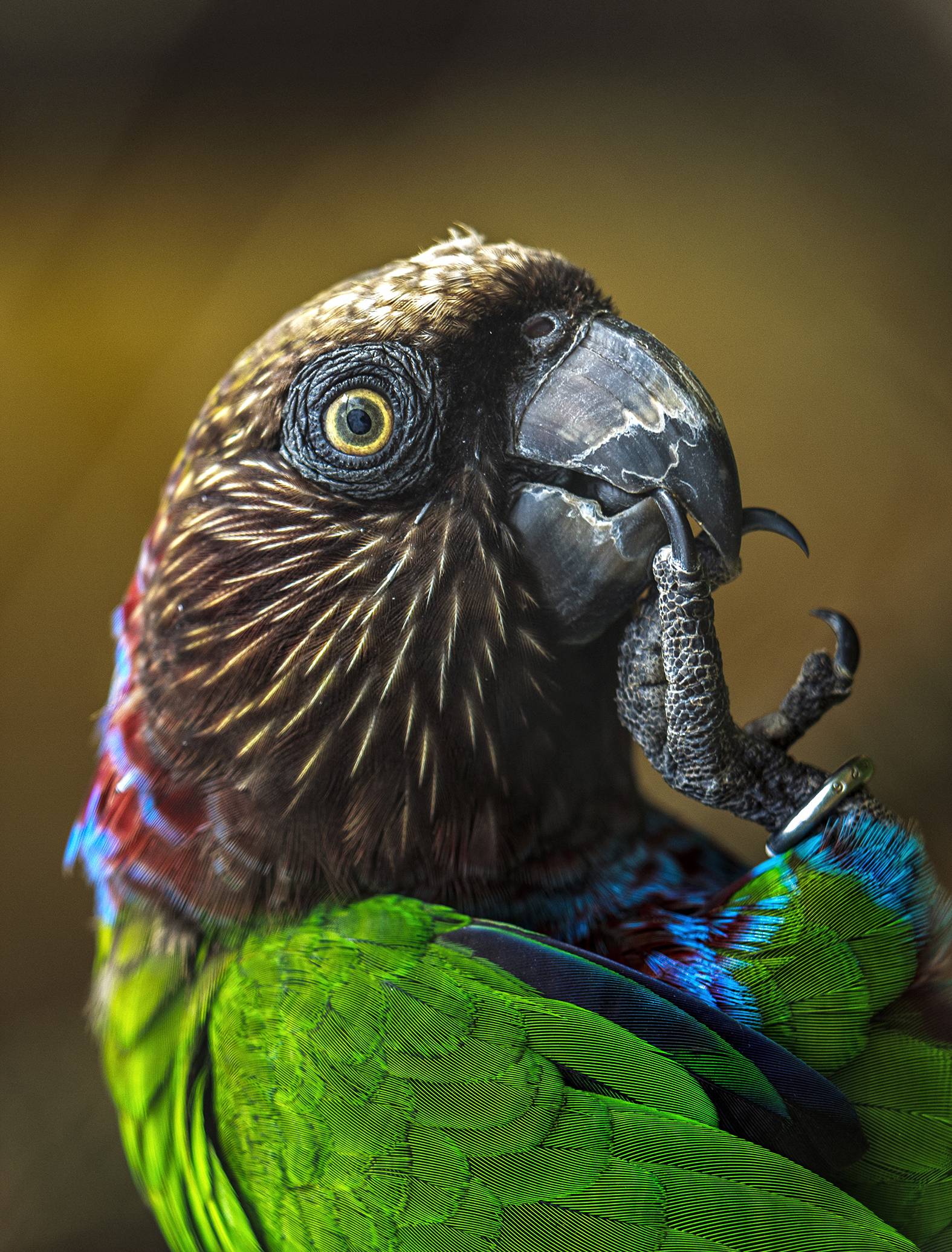 The Red-fan Parrot (Deroptyus accipitrinus), also known as the Hawk-headed Parrot, is an unusual New World parrot hailing from the Amazon Rainforest. It is the only member of the genus Deroptyus. The Red-fan Parrot possesses elongated neck feathers that can be raised to form an elaborate fan, which greatly increases the bird's apparent size, and is possibly used when threatened. It generally lives in undisturbed forest, feeding in the canopy on fruits.